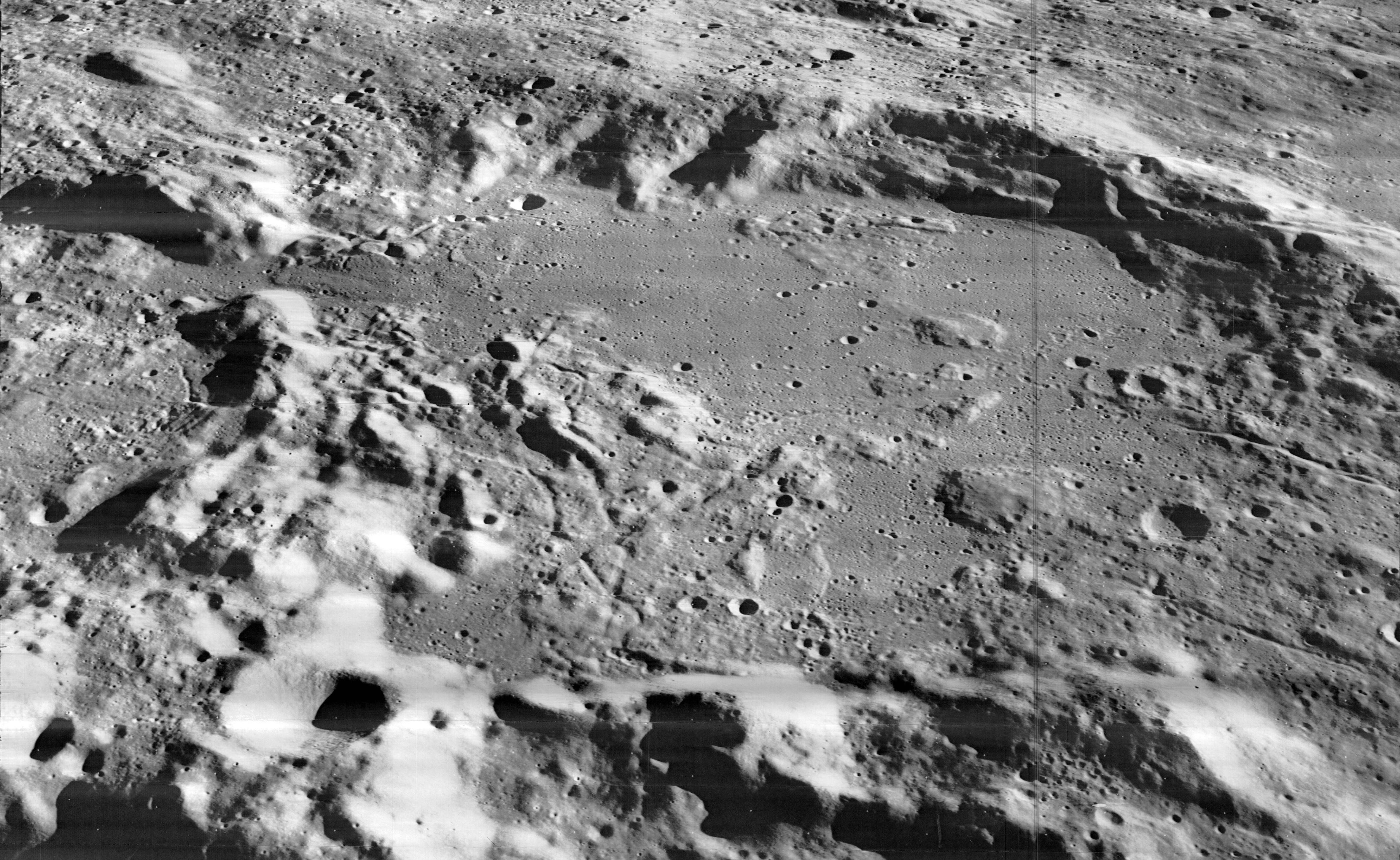 Oblique view of Murchison, on the moon, facing northeast.